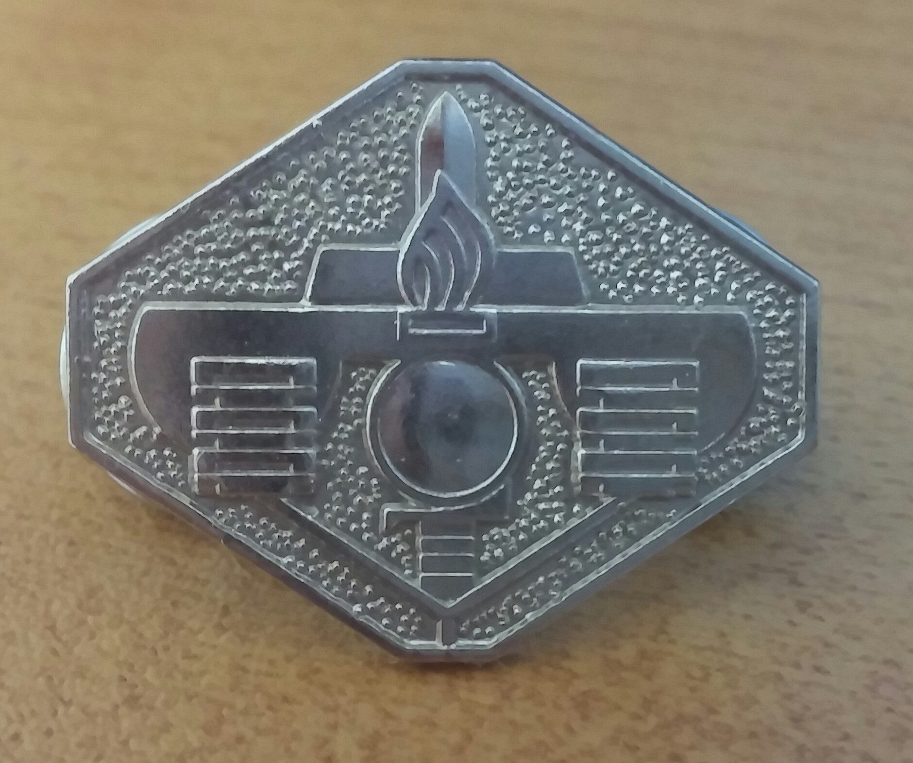 A lapel pin of the Israeli Ordnance Corps given to every soldier who has completed a military Ordnance course in the OC central base (Bahad 20). The pin is also called the "Himushon" (חימושון; Ḥimušon). The soldier wears the pin in the top segment of his, or hers, left shirts pocket.